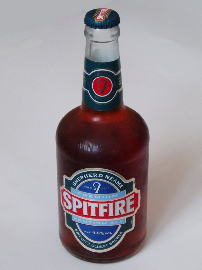 Spitfire, from Shepherd Neame